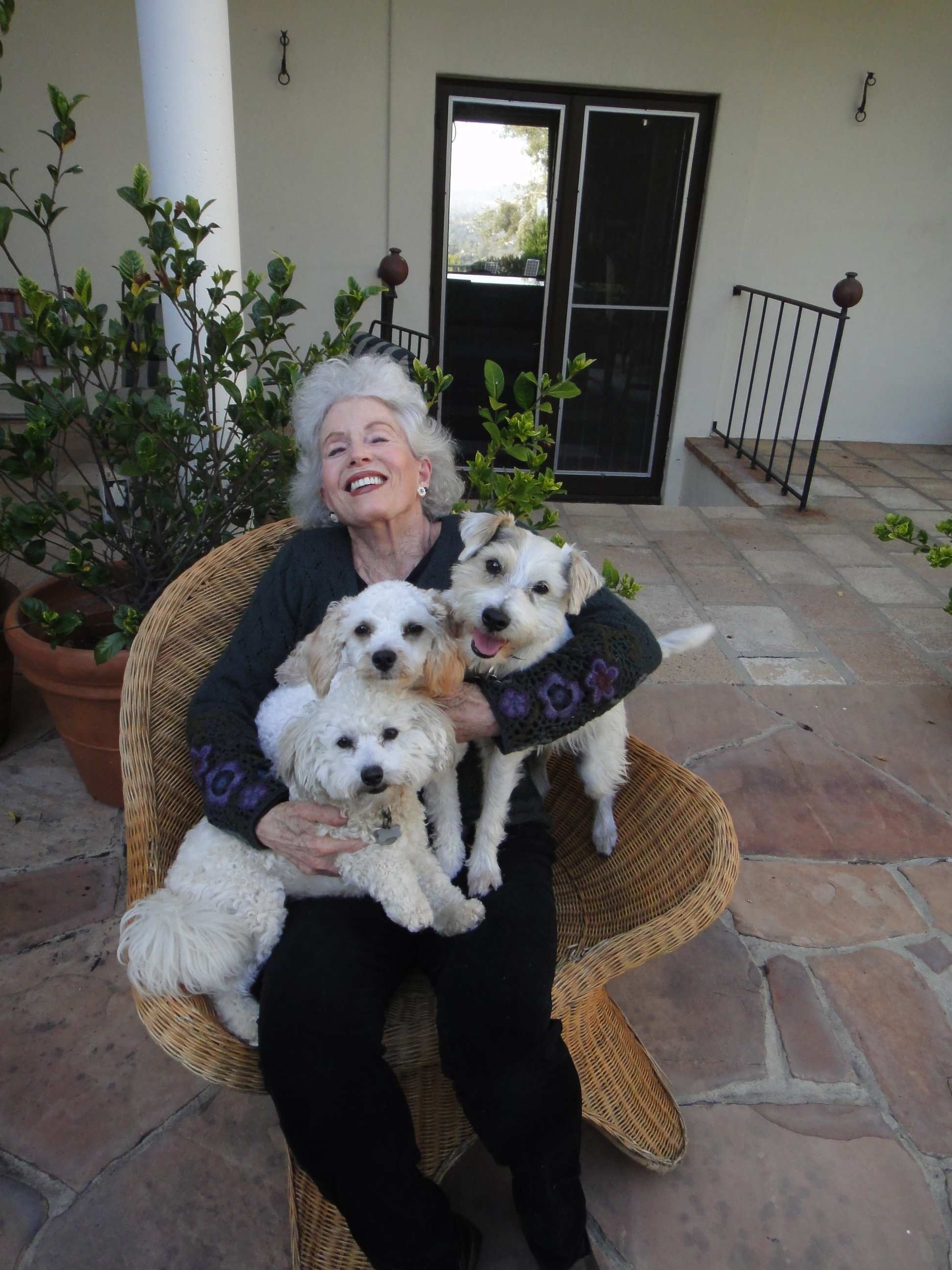 Marianne enjoying her pets in her courtyard.